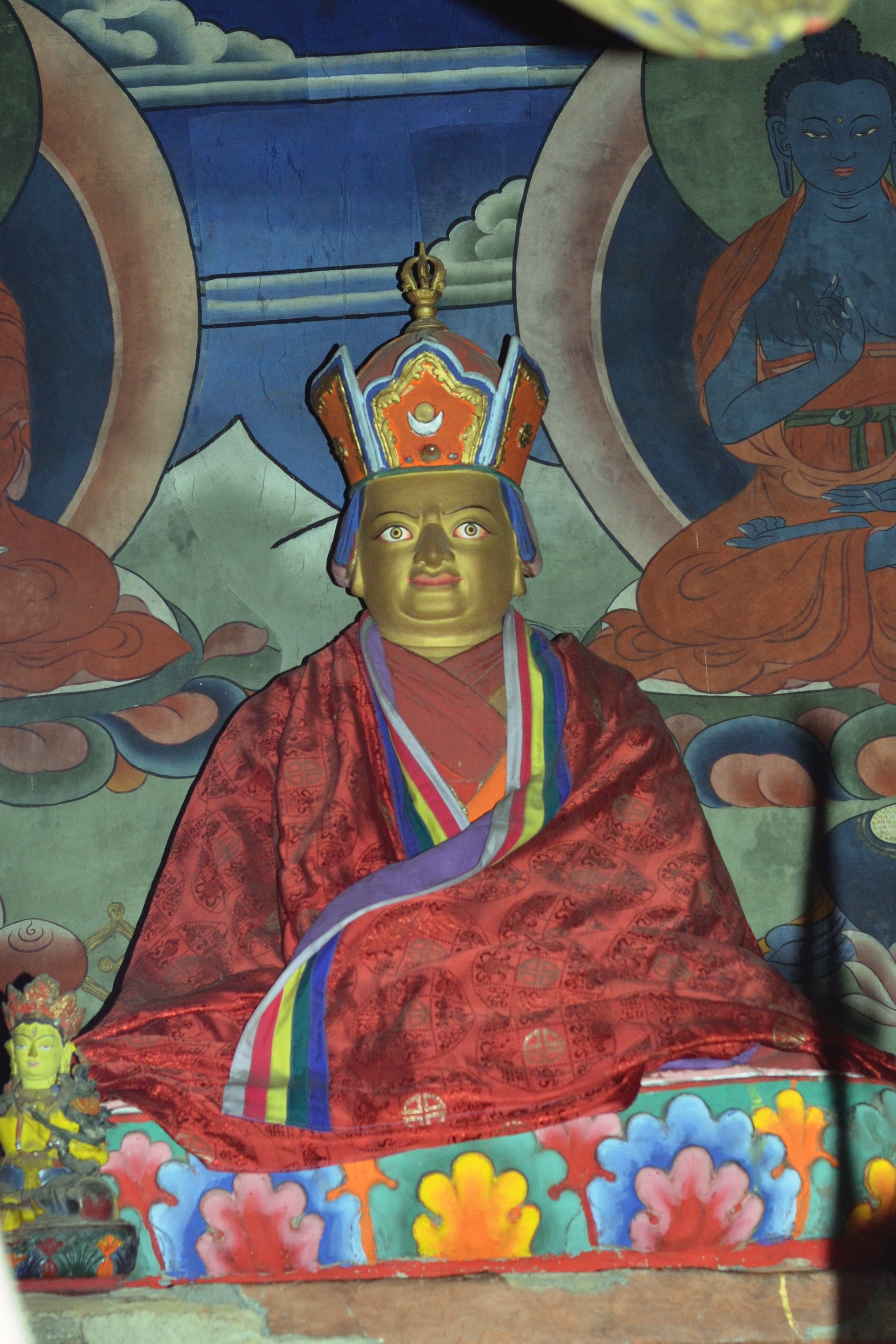 Statue of Terchen Pema Lingpa in a temple at Tsakaling, Mongar, Bhutan.